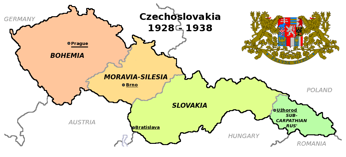 Maps of Czechoslovakia in 1928-1938 with marked borders of all four Czechoslovak lands and their regional capital cities